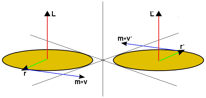 Illustration of the angular momentum as a pseudo vector preserving its direction when point-reflected